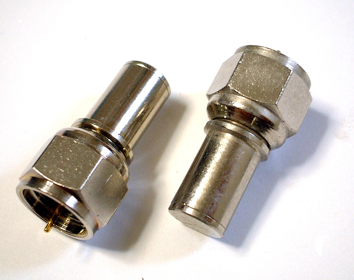 Termination Registor. Photo taken in Tokyo Japan.